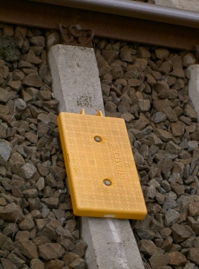 Eurobalise in Lutherstadt Wittenberg, Germany